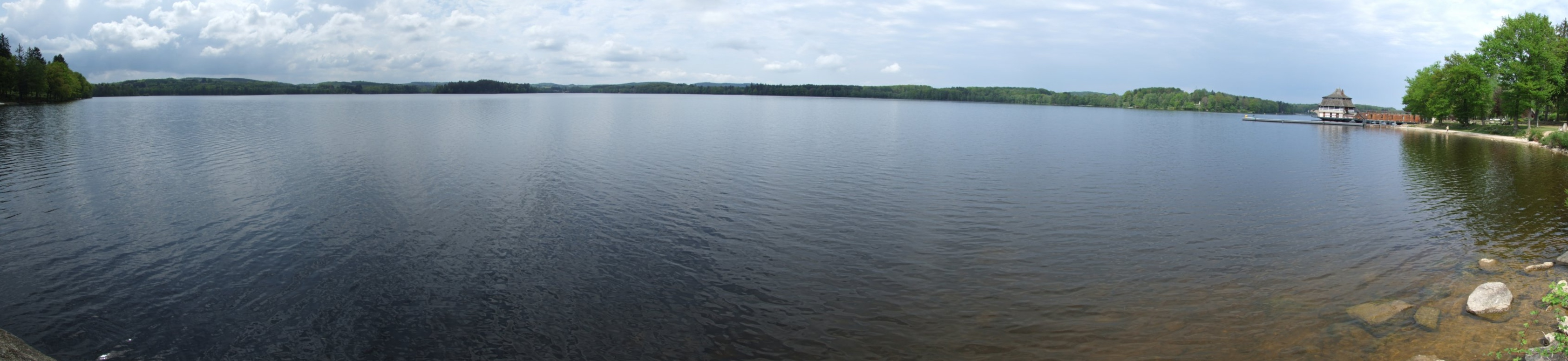 Setton lake, Burgundy, FRANCE